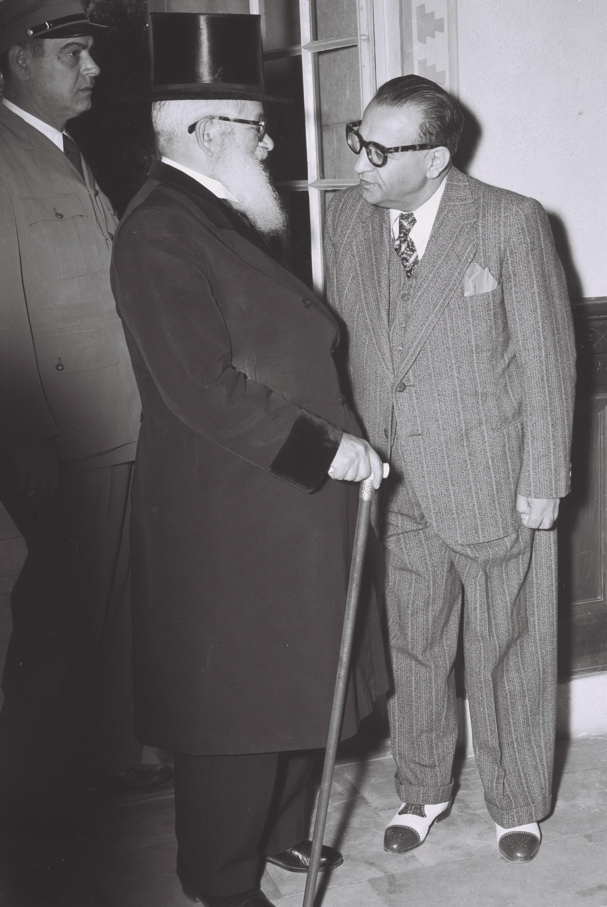 The Iranian representative mr. Saffinia greets the chief rabbi dr. Herzog on his arrival at the cocktail party at the Y.M.C.A. in Jerusalem.